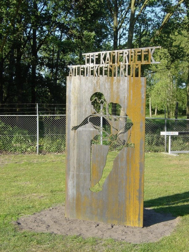 Sculpture with figure of Eef Kamerbeek at the 'Eef Kamerbeek Atletiekcentrum' in Eindhoven